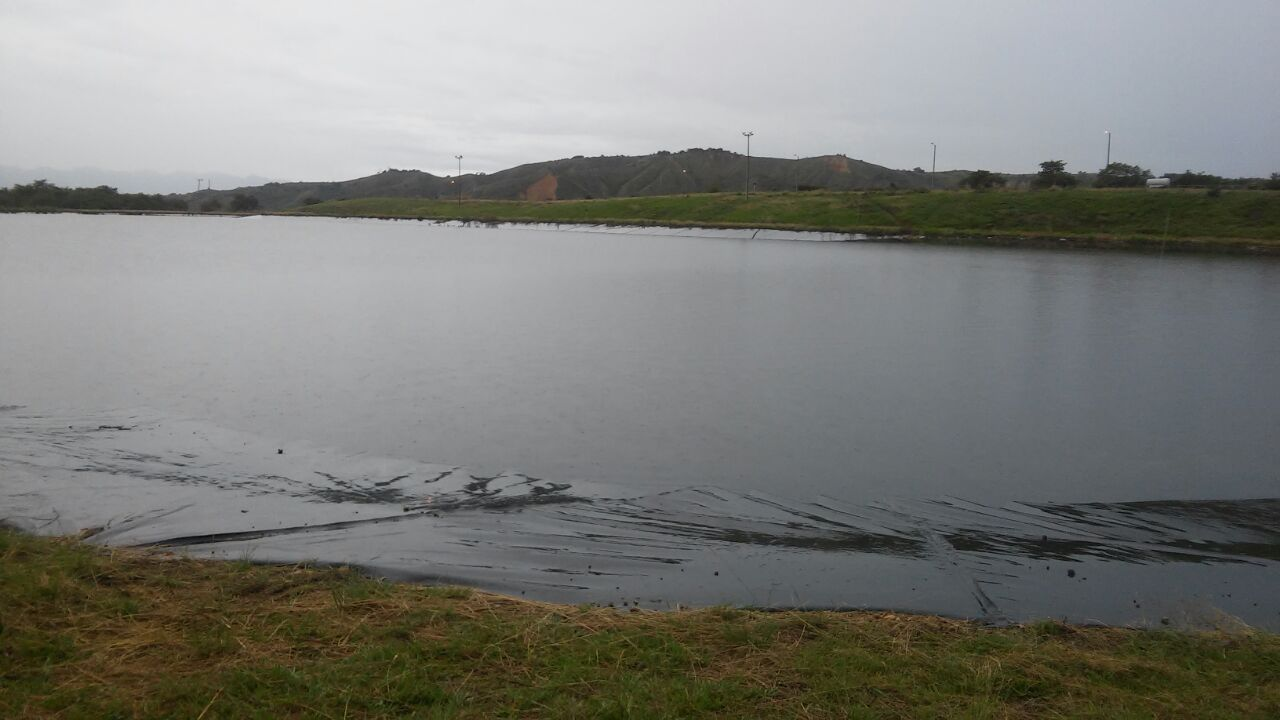 Reservoir of the city of Neiva.